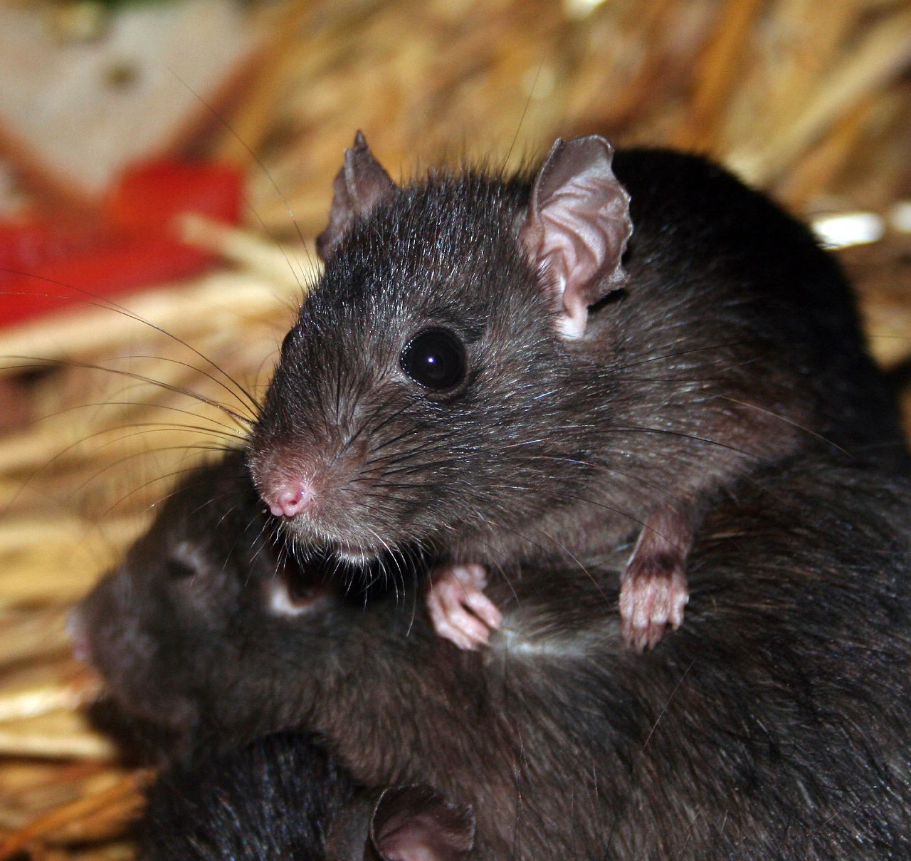 Rat